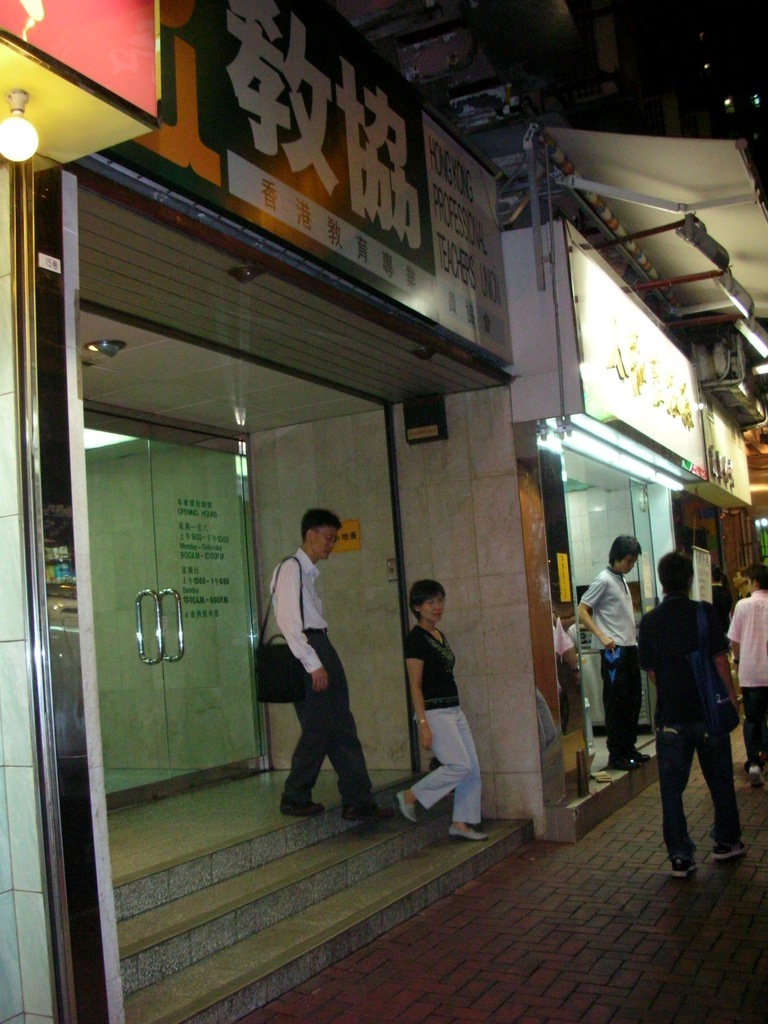 Hong Kong Professional Teachers' Union 中文（香港）: 香港教育專業人員協會港島會所。